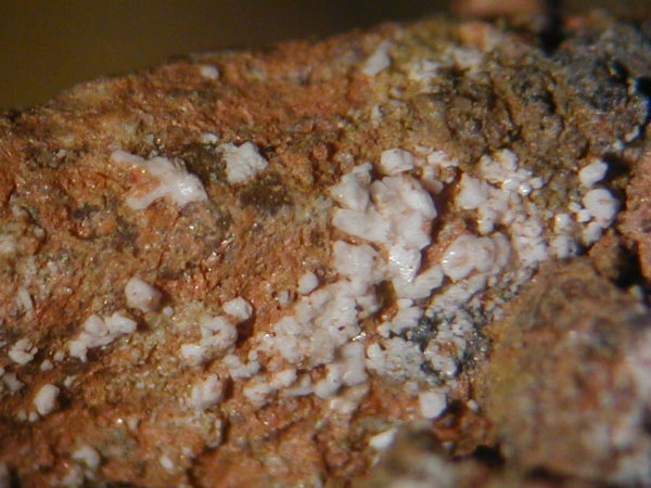 Bassanite (Picture size 3.7 mm) Fundort: Ronneburg, Thuringia, Germany White bassanite pseudomorphous after gypsum. Collection and foto Thomas Witzke.